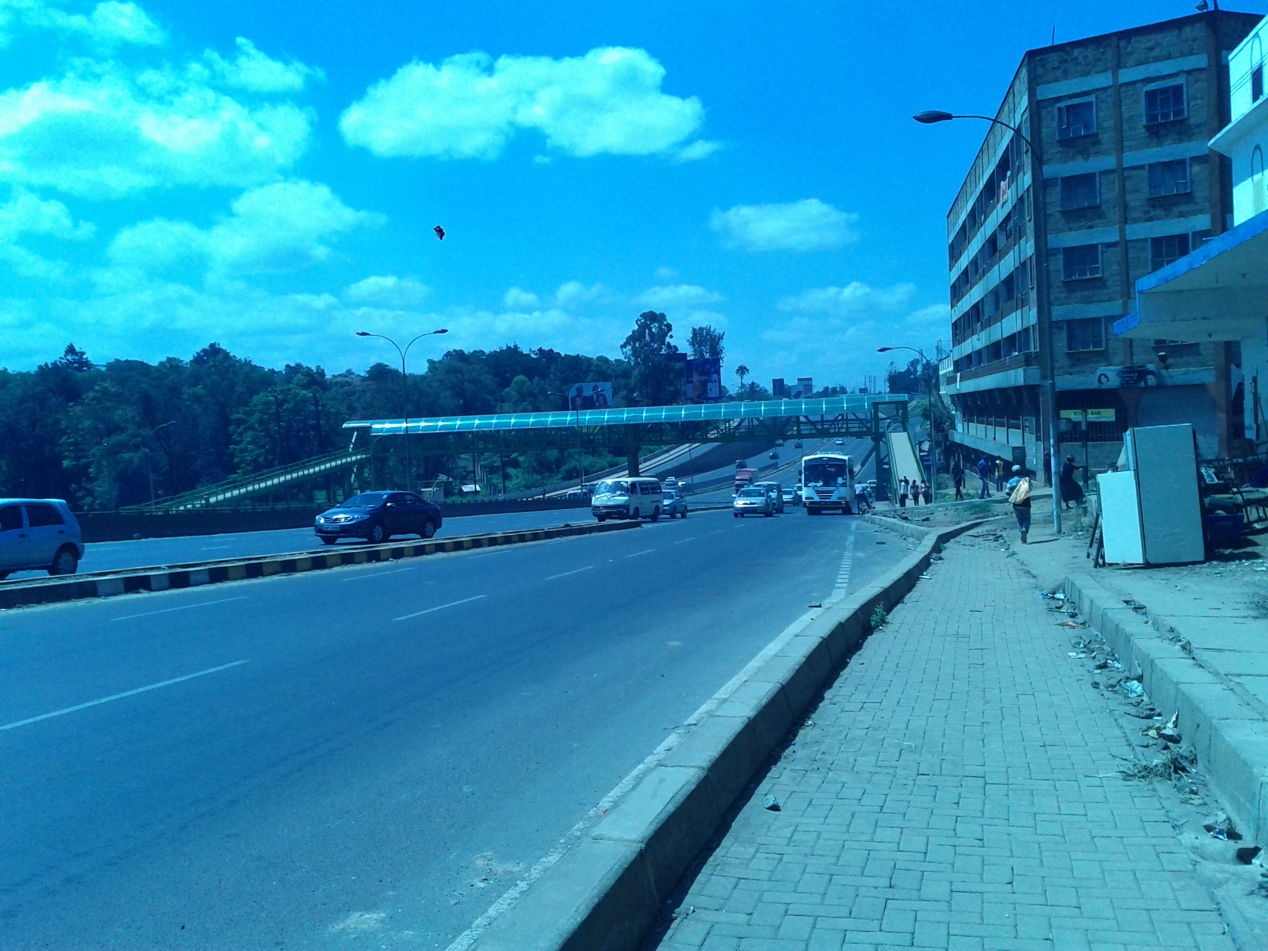 Thika road super highway connecting Nairobi city and Thika town in Kenya. This shot is taken between Pangani and Muthaiga estates